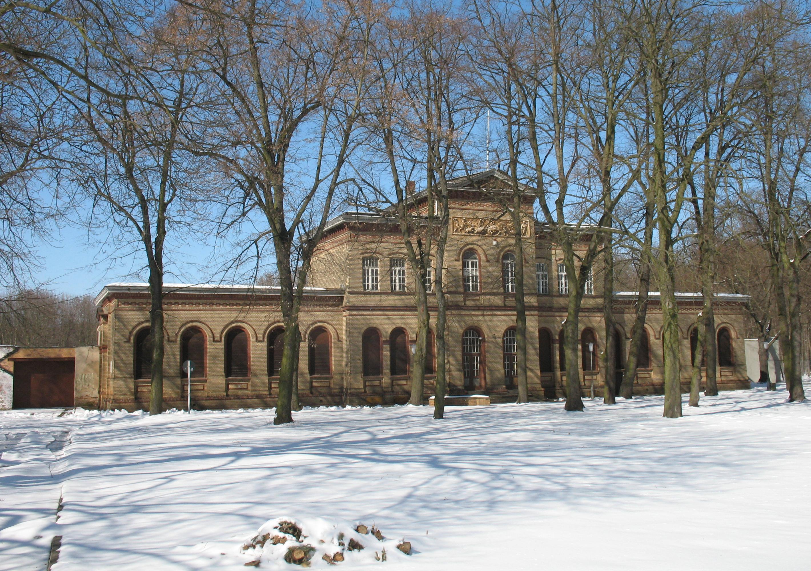 Clubhouse of a shooting club in Berlin-Niederschönhausen, Germany